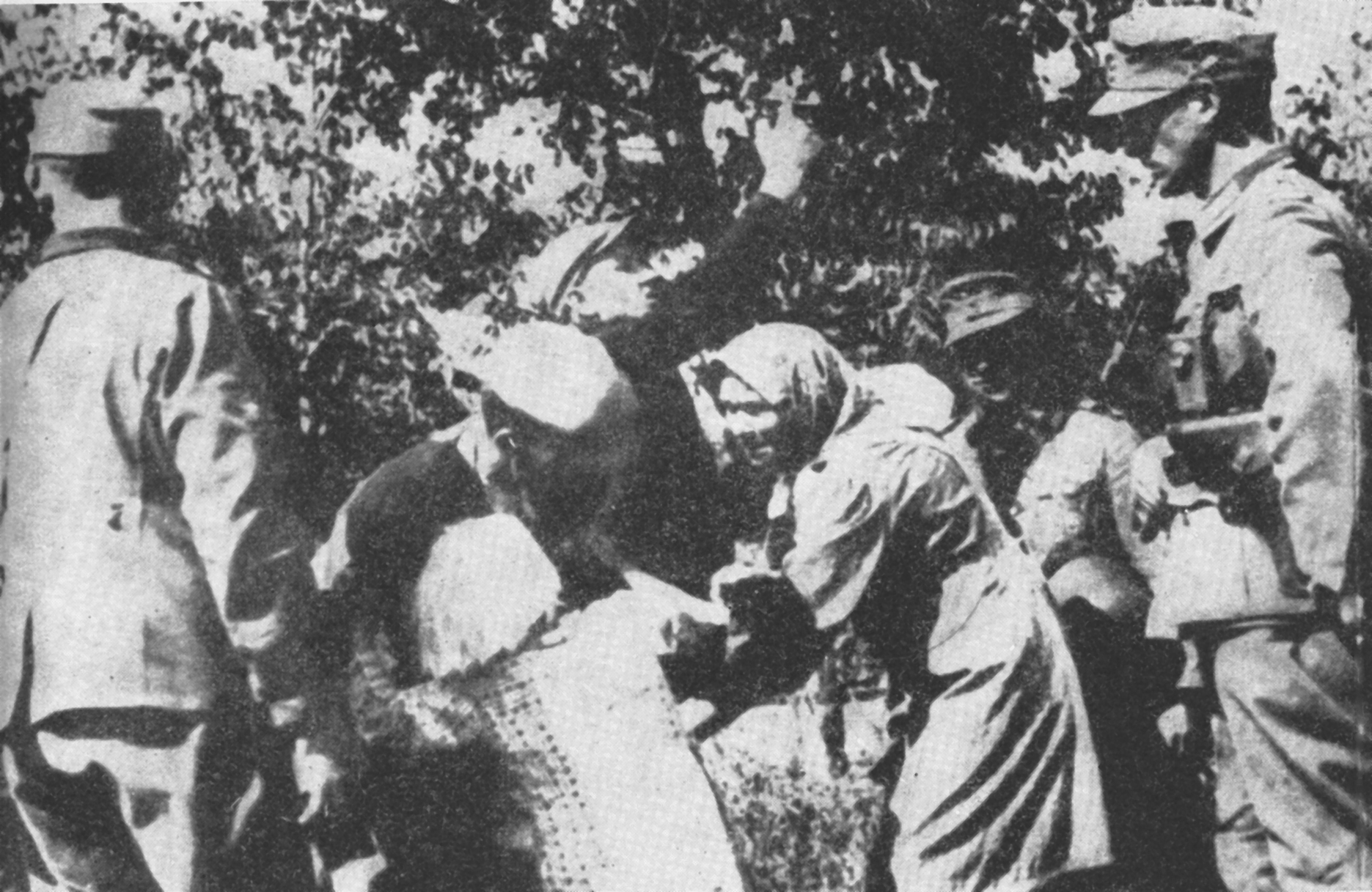 Kidnapping of Polish children during the Nazi-German resettlement operation at Zamojszczyzna (1942-1943).